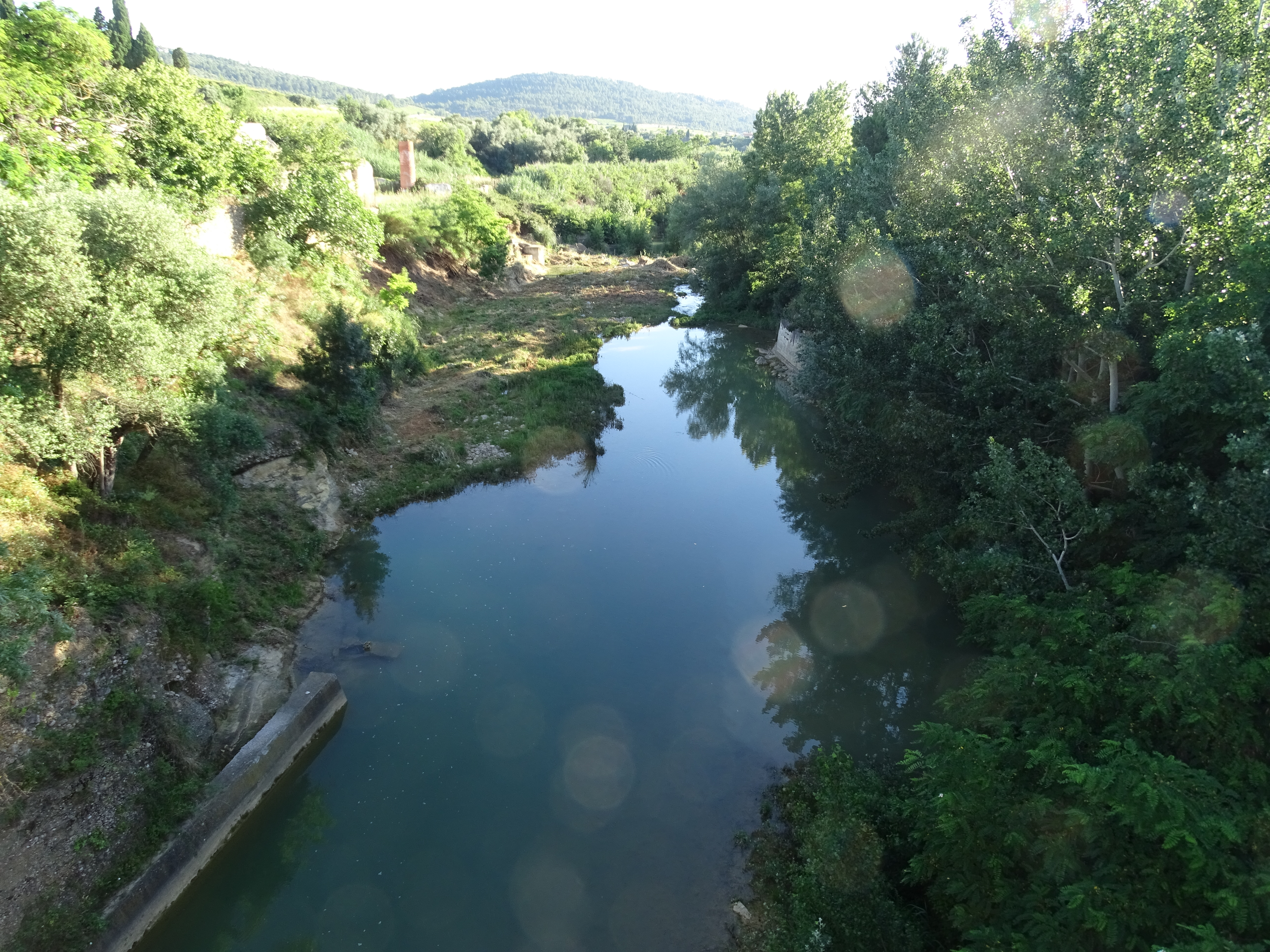 Nielle river in Saint-Laurent-de-la-Cabrerisse in June 2018 downstream